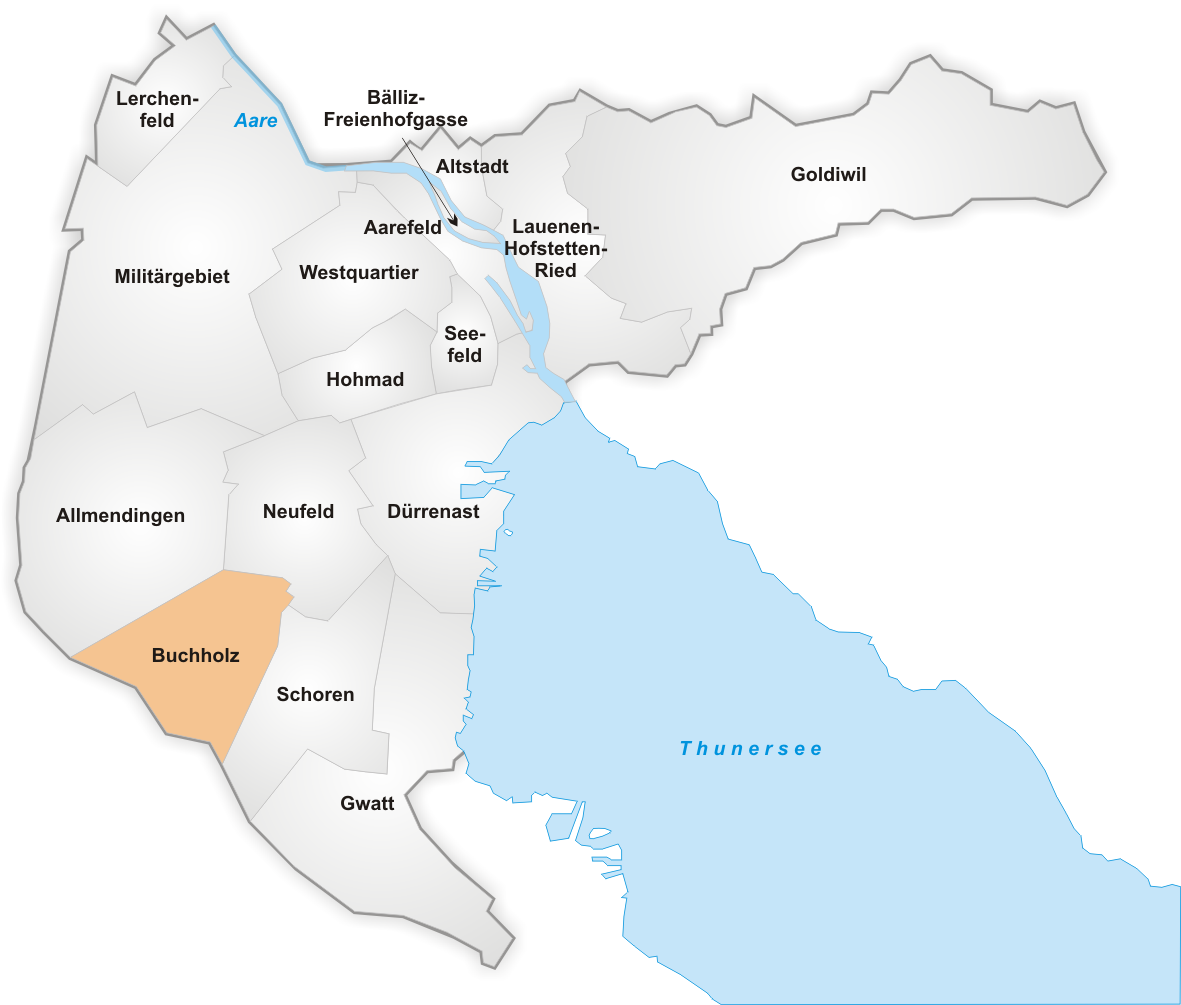 Thuner Quarter Buchholz